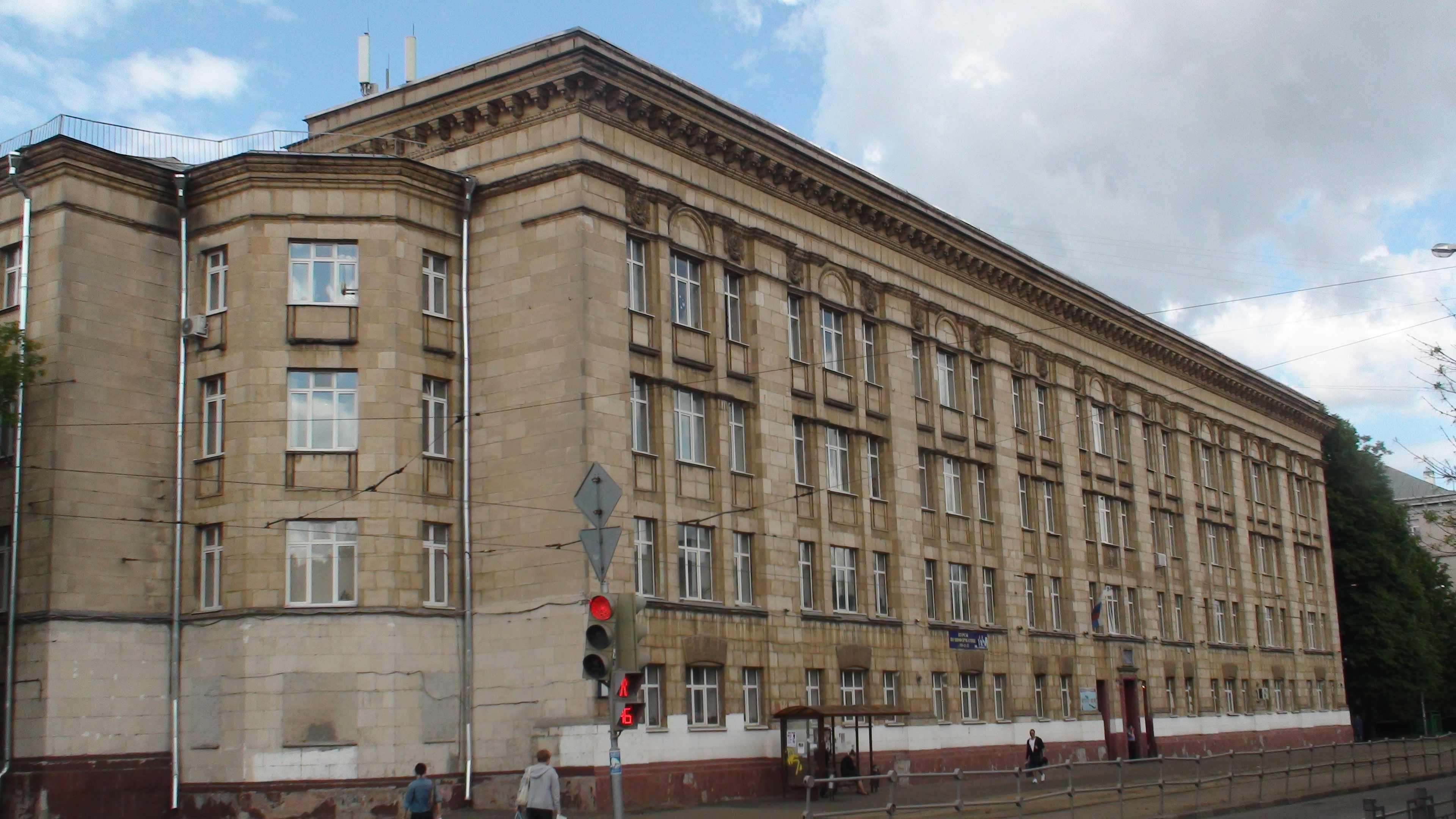 улица Клары Цеткин